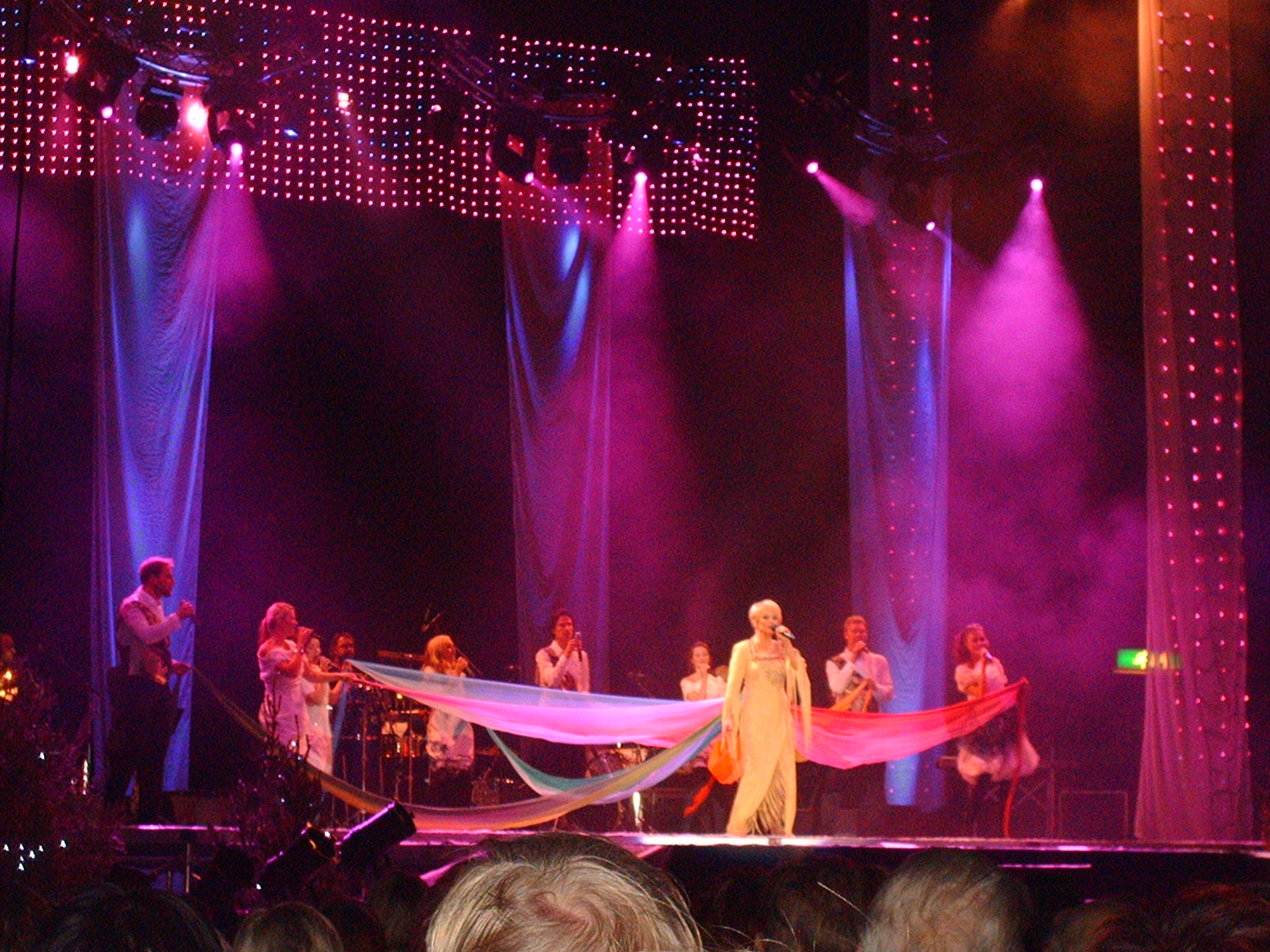 Katri Helena singing in The Christmas Concert "Me Starat" (We Stars)